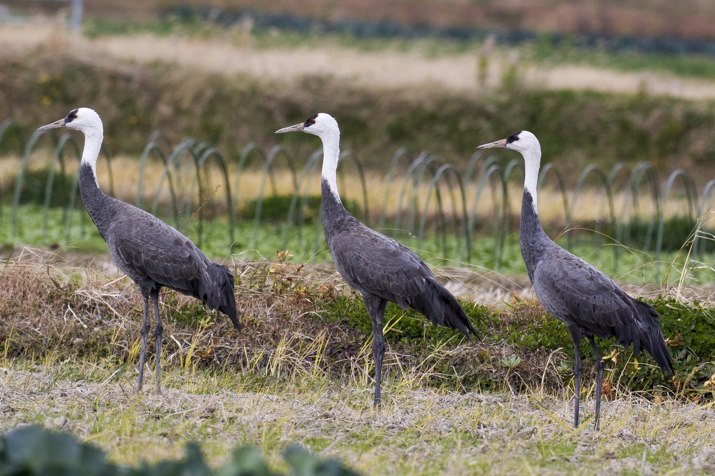 Grus monacha at Nakagawa town,Tokushima